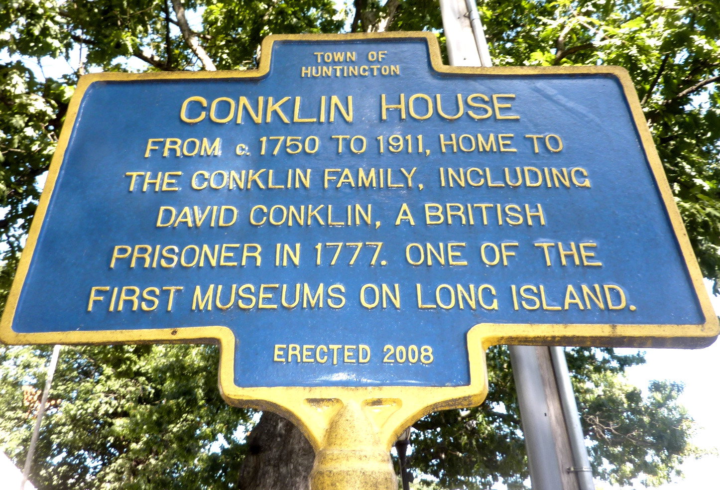 David Conklin House, 2 High Street Huntington